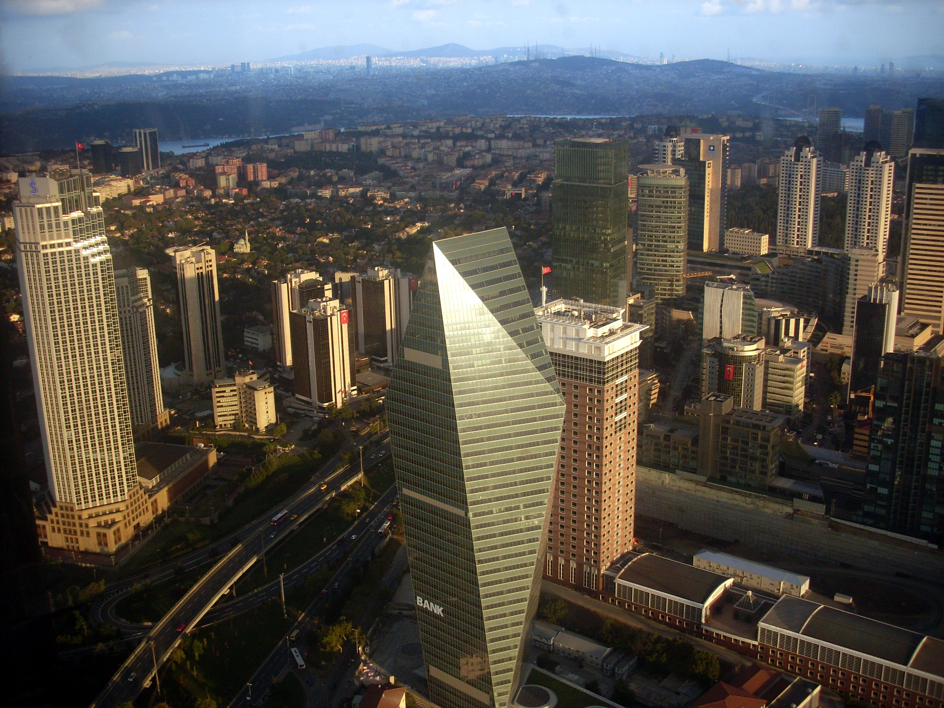 İstanbul view from İstanbul Sapphire observation deck Aug 2014. Beşiktaş, Kristal Kule Finansbank, İş Kuleleri, Yapı Kredi Plaza, Levent, Kanyon, Metrocity, Özdilek Park, Akmerkez, Ulus, Nispetiye, Akatlar, Zorlu Center, Büyükdere Caddesi, Boğaziçi Köprüsü, Bosphorus, Çamlıca